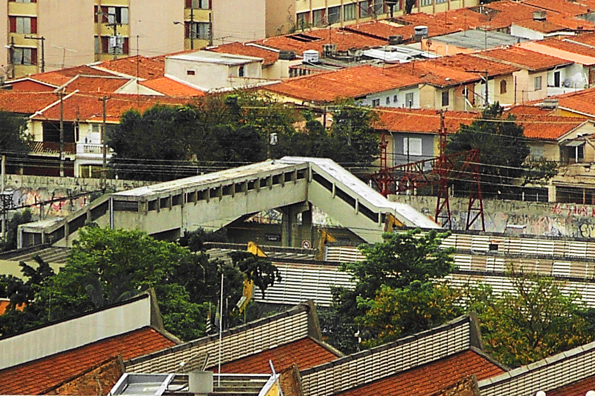 Bridge between platforms at Lapa station in São Paulo, Brazil (Line 8-Diamante).